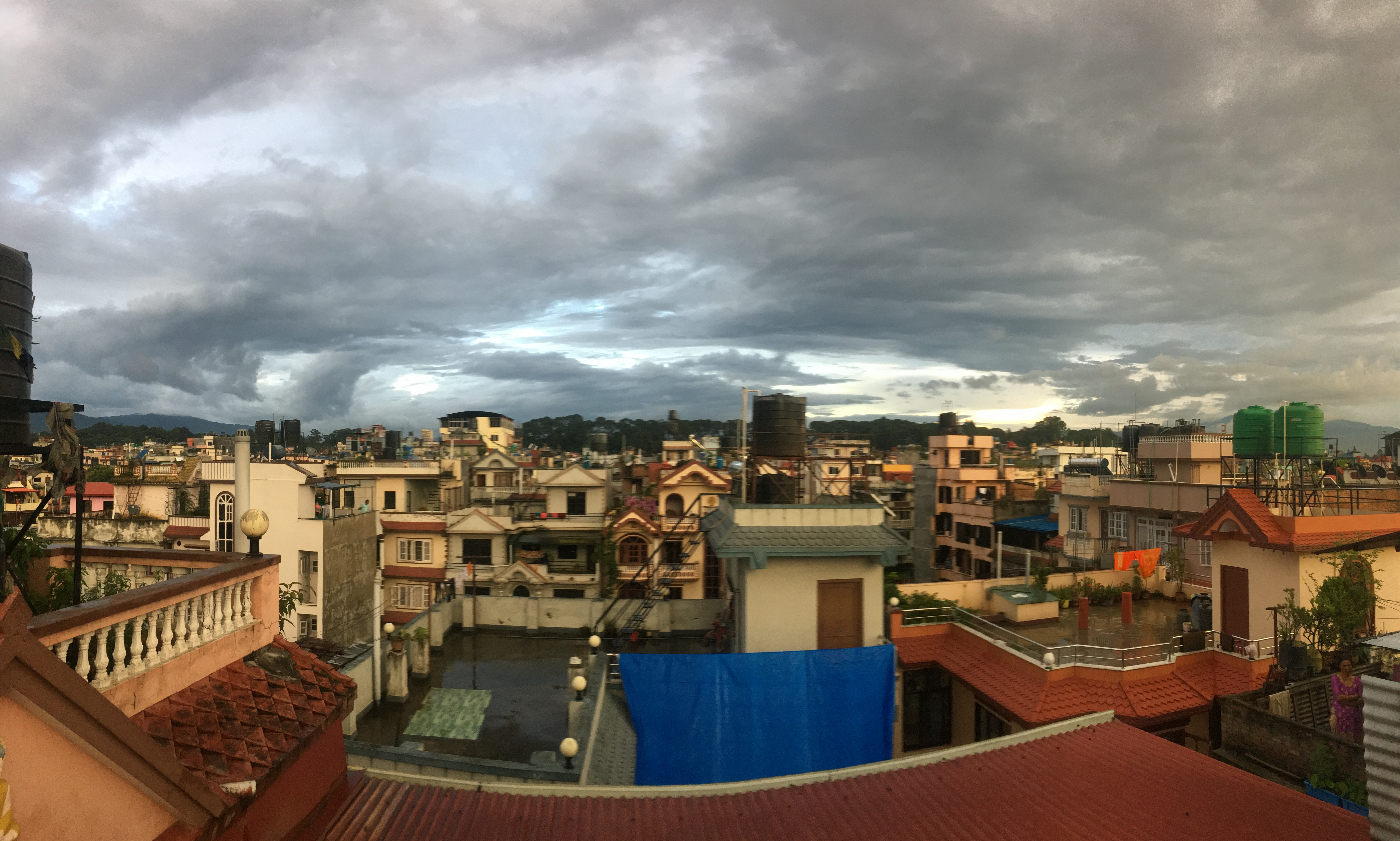 pano of samakhushi.